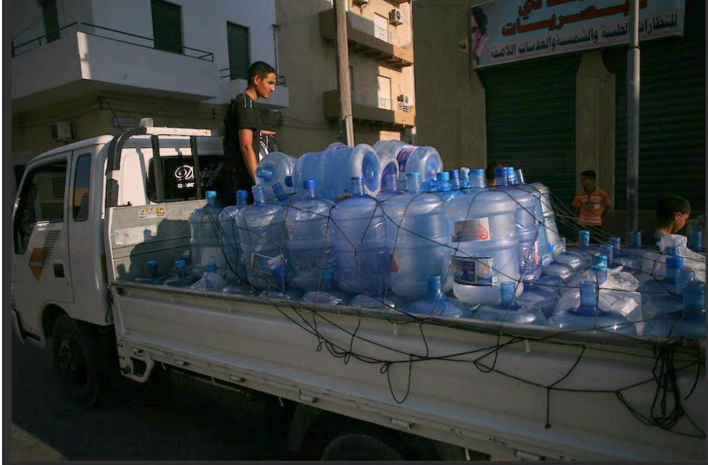 A man sells water from the back of a truck in Tripoli. Water has been cut off throughout the city.